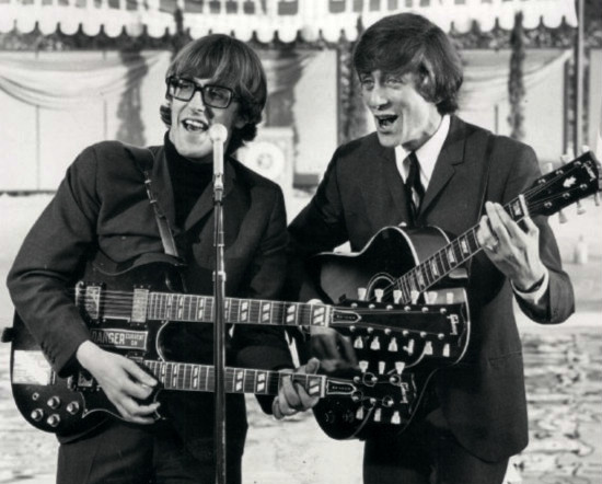 Publicity photo of Chad and Jeremy from a television special at Marineland aired by CBS Television.